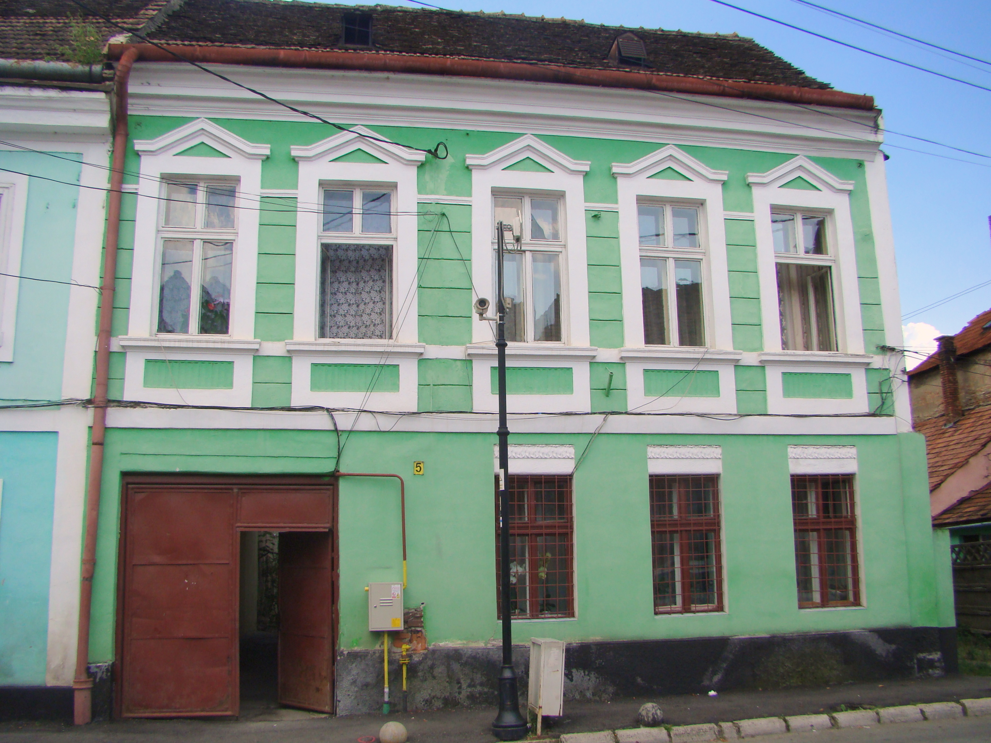 House, historic monument, in Bistrița, Constantin Dobrogeanu-Gherea street 5